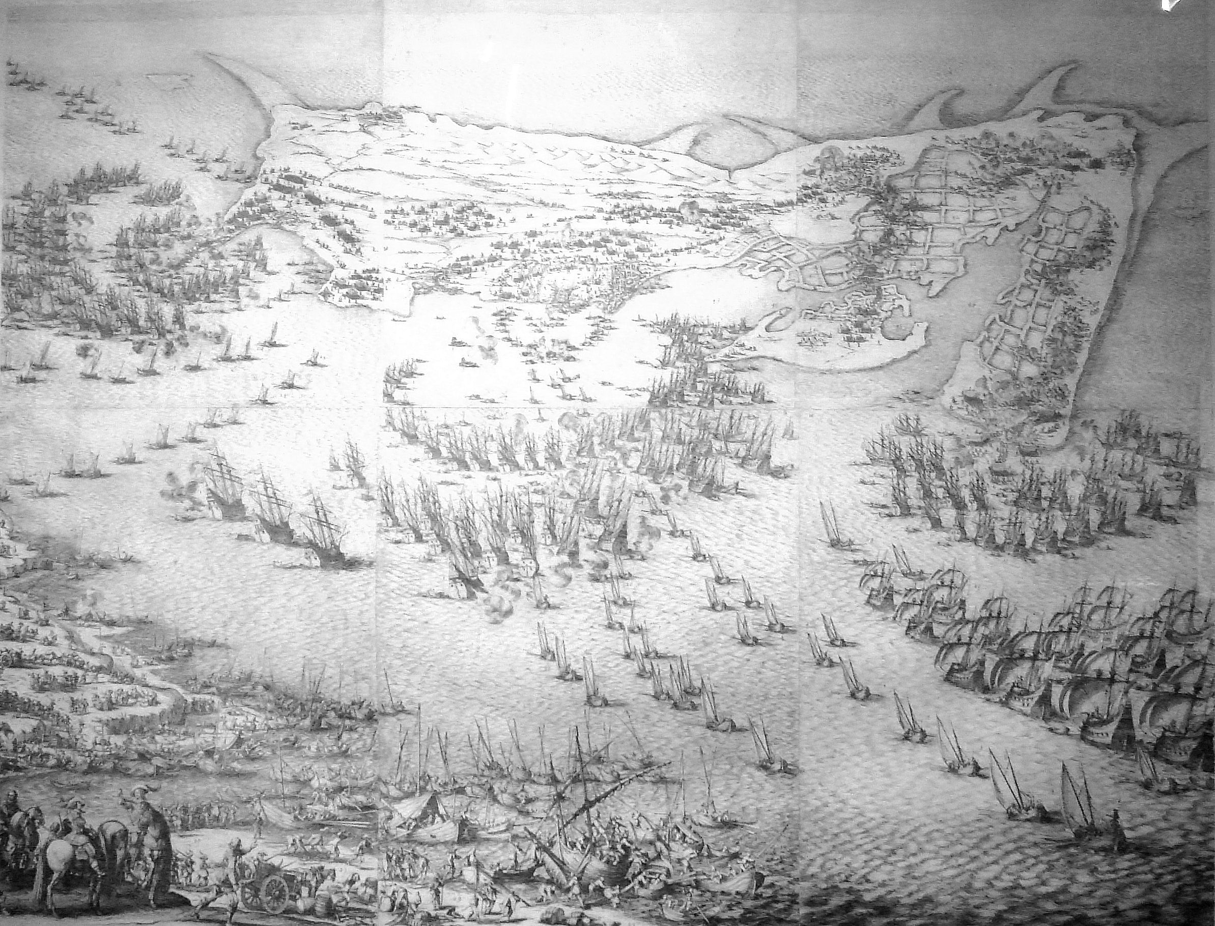 Invasion of Re1627.